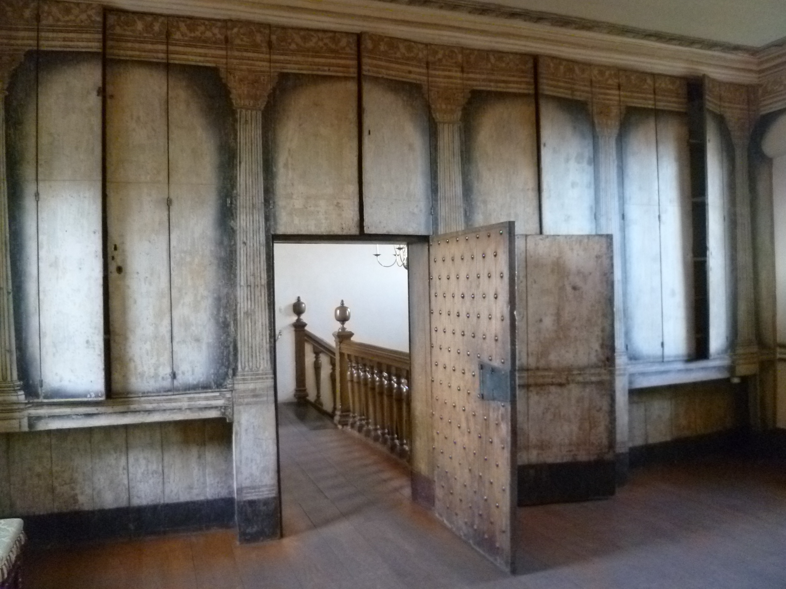 Interior wall decor of the High Dining Room, Argyll's Lodging, Stirling